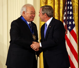 Kiowa writer and visual artist N. Scott Momaday receiving the National Medal of Arts from US President George W. Bush in 2007.